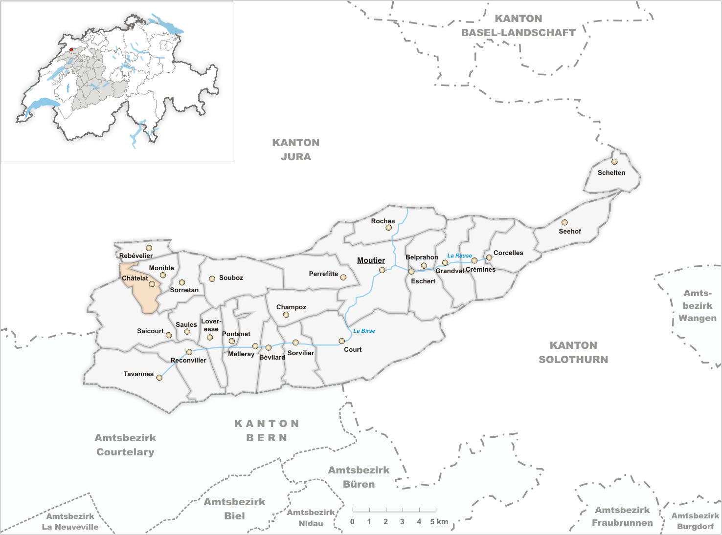 Municipality Châtelat